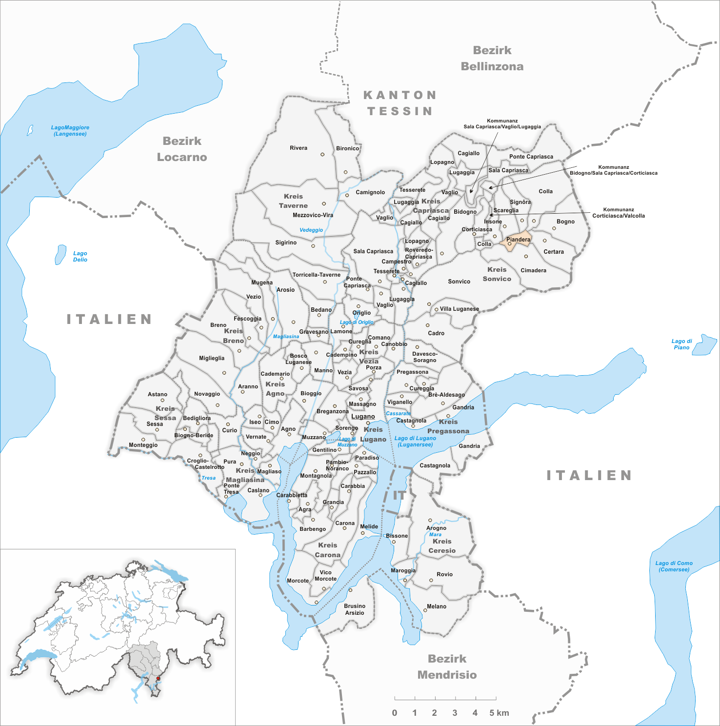 Municipality Piandera Artist: Tschubby